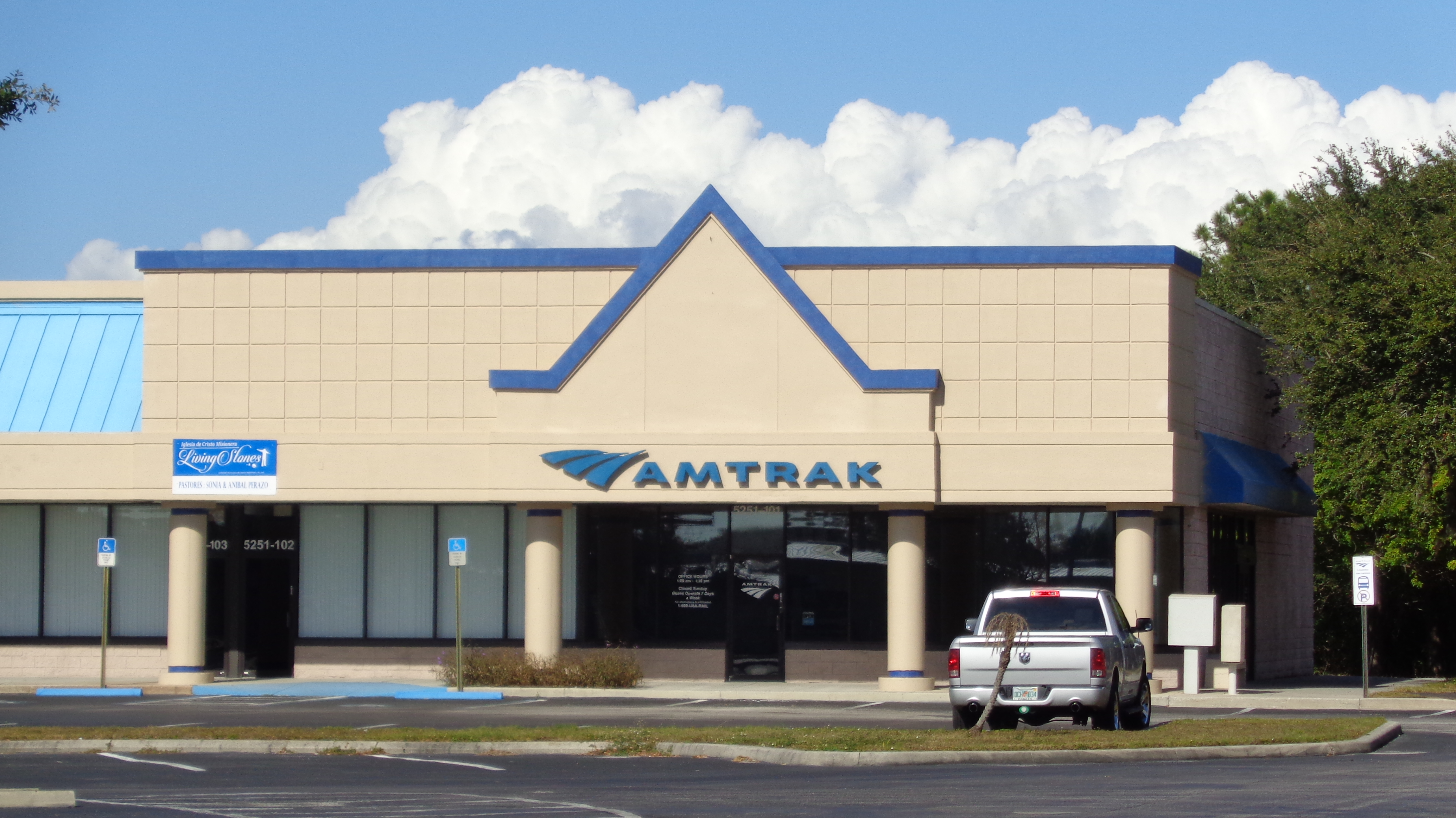 Amtrak bus station (station code: STP) in Pinellas Park, Florida serving Clearwater, Florida and St. Petersburg, Florida. As of 2016, it is the only active Amtrak station of any kind in Pinellas County, Florida.